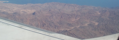 Red Sea Mountains